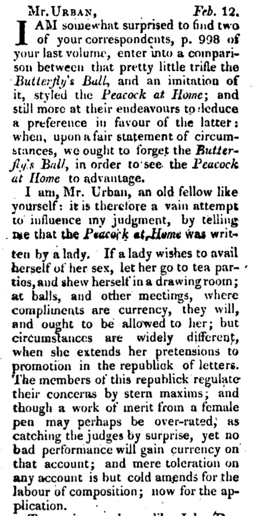 "The Gentlemen's Magazine" - March 1808 - "The Peacock 'at Home'" - Criticism